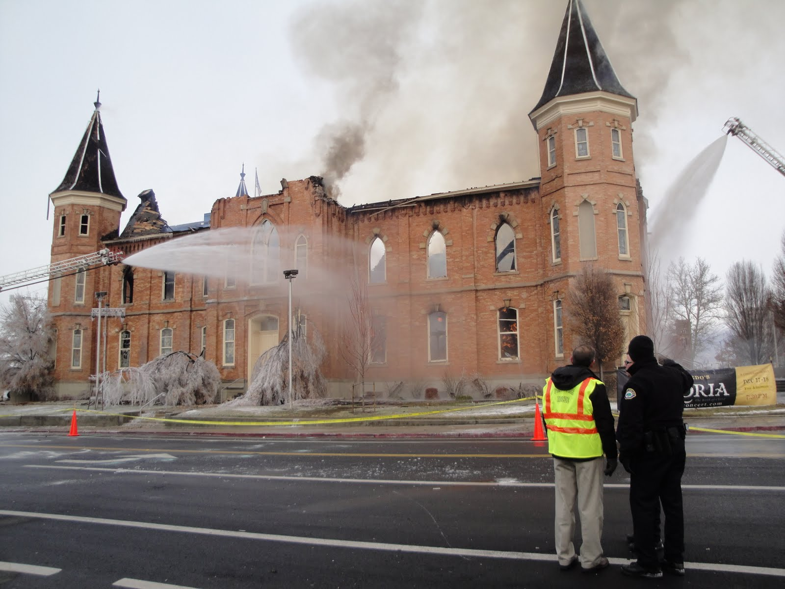 Aftermath of the fire that destroyed historic Provo Tabernacle on 17 Dec 2010